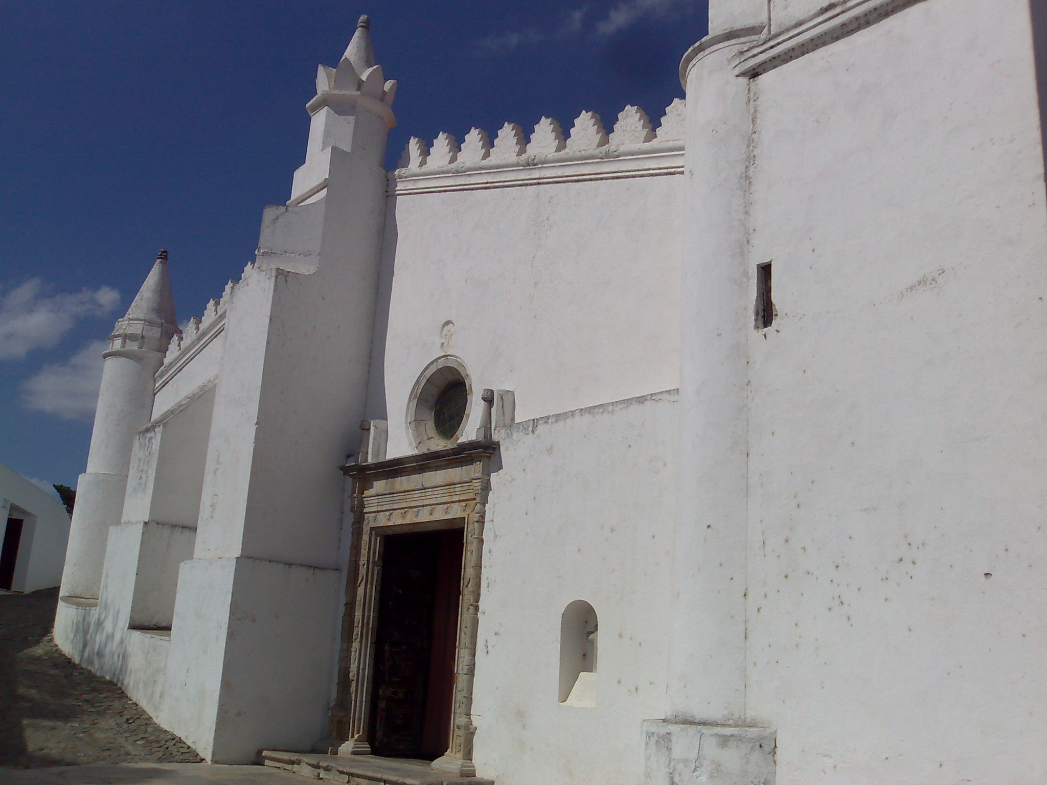 Church of Nossa Senhora da Anunciação, in Mértola, Portugal